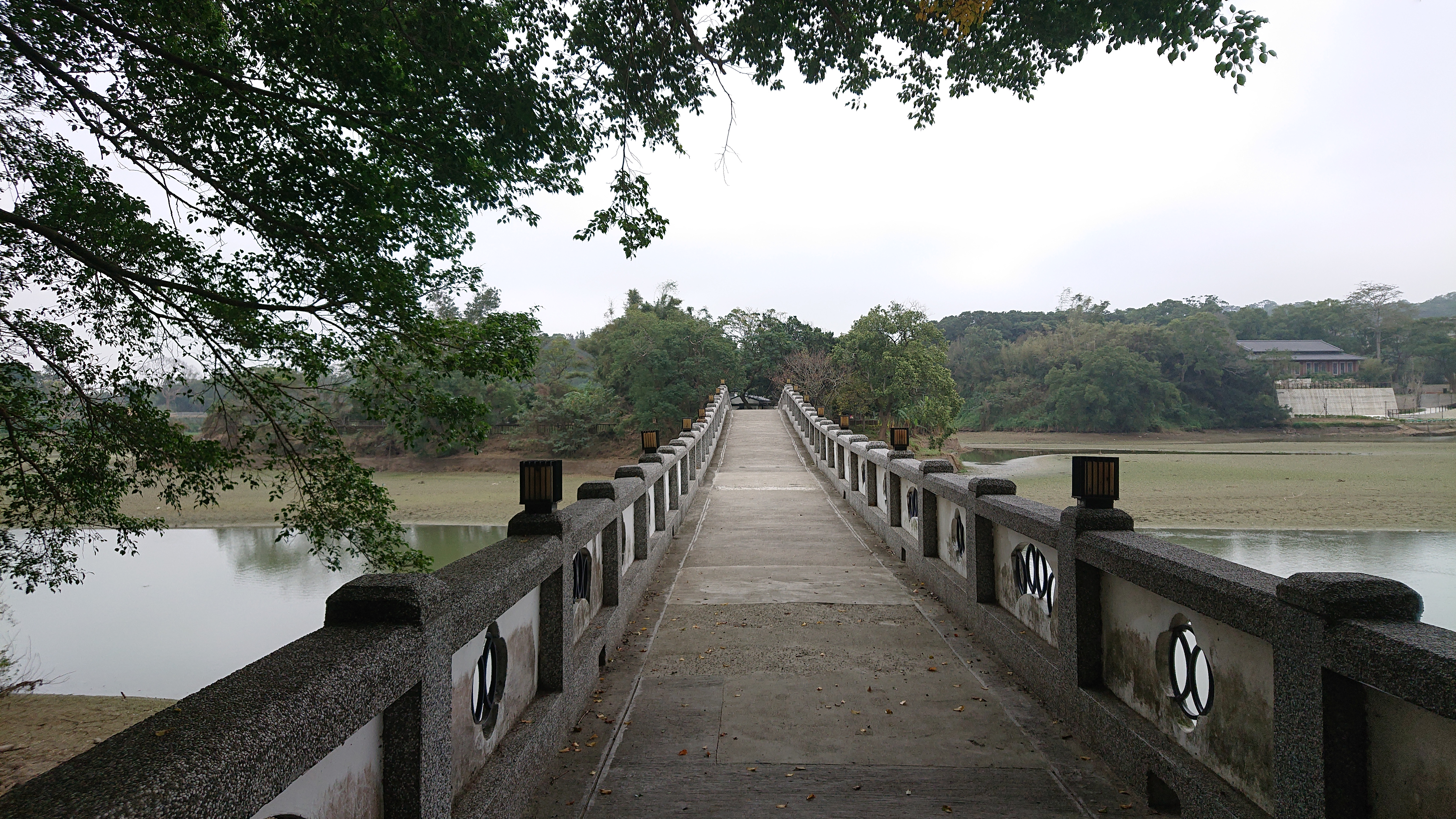 The Bridge is Green Grass Lake in Hsinchu City.png